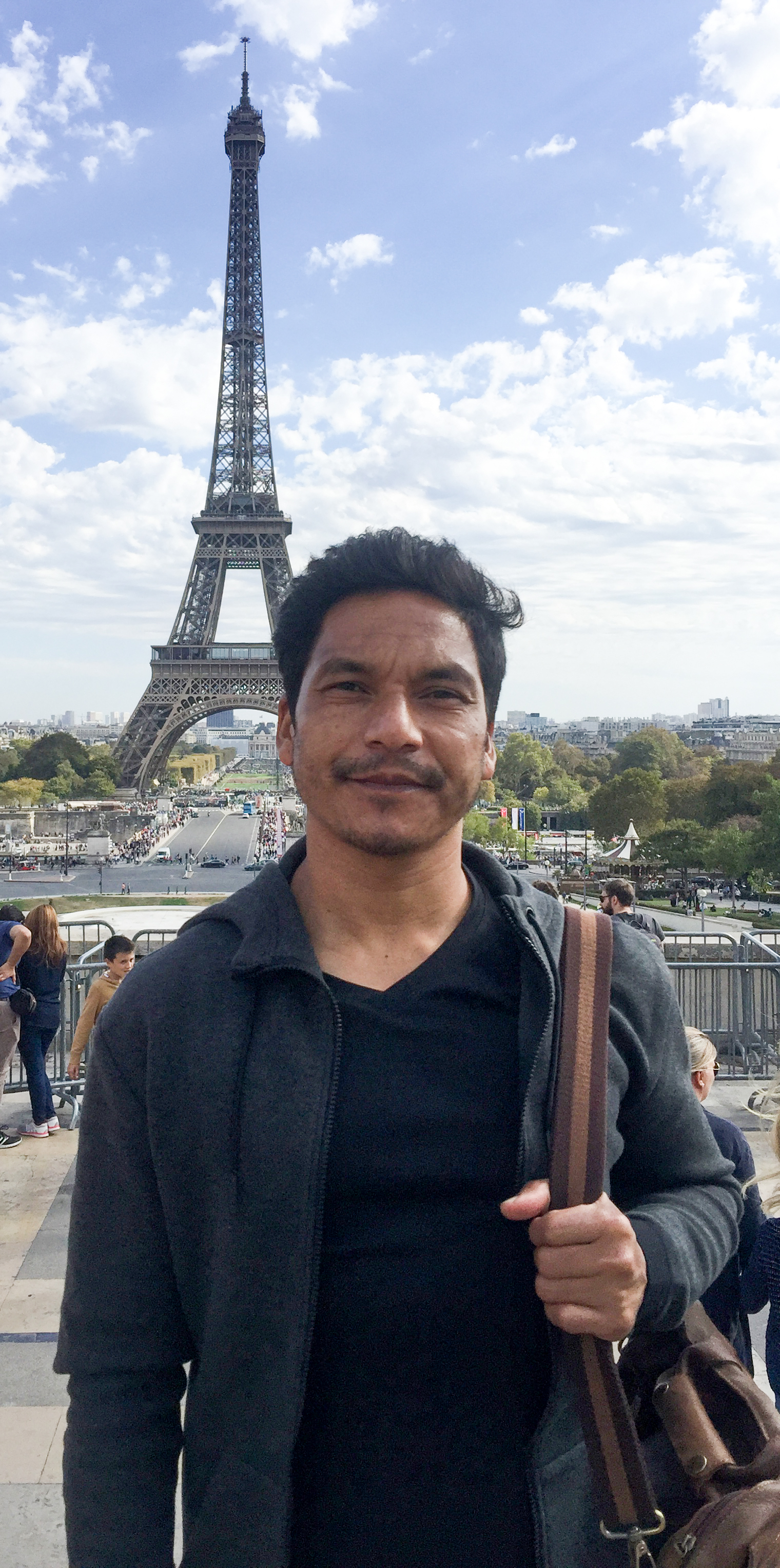 Roshan Bikram Thakuri, popularly known as Roshan Hamal/Roshan Thakuri is a Nepalese film director, producer and a philanthropist.